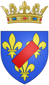 Coats of arms of the Dukes of Vendôme (legitimised princes of the blood)